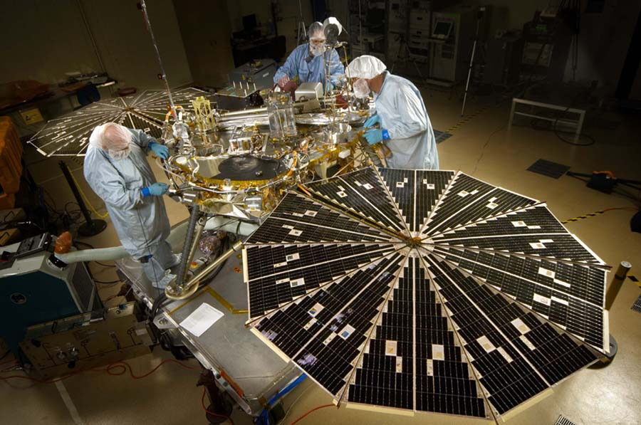 NASA's next Mars-bound spacecraft, the Phoenix Mars Lander, was partway through assembly and testing at Lockheed Martin Space Systems, Denver, in September 2006, progressing toward an August 2007 launch from Florida. In this photograph, spacecraft specialists work on the lander after its fan-like circular solar arrays have been spread open for testing. The arrays will be in this configuration when the spacecraft is active on the surface of Mars. Phoenix will land in icy soils near the north polar permanent ice cap of Mars and explore the history of the water in these soils and any associated rocks, while monitoring polar climate. It will dig into the surface, test scooped-up samples for carbon-bearing compounds and serve as NASA's first exploration of a potential habitat on Mars.